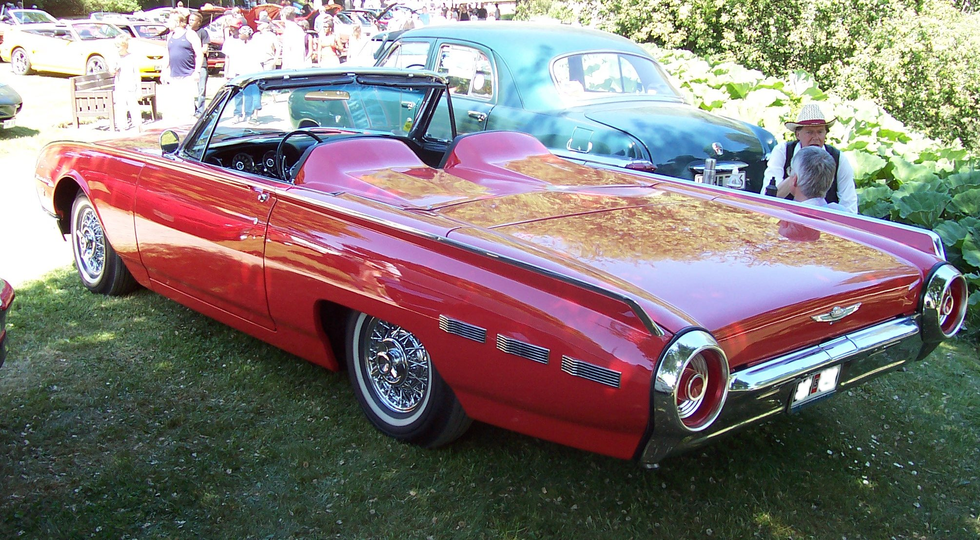 1962 Ford Thunderbird Sports RoadsterThe ’62-’63 T-bird Sports Roadster, with it’s removable fiberglass tonneau covering the back seat, was a reminiscent of the ’55-’57 two-seater. Those nice looking Kelsey-Hayes wire wheels were part of the Sports Roadster package. With the price tag stating $5439 it was quite expensive, some 14 per cent more than the regular convertible and production only reached 1,427 units in 1962 and a mere 455 in 1963.